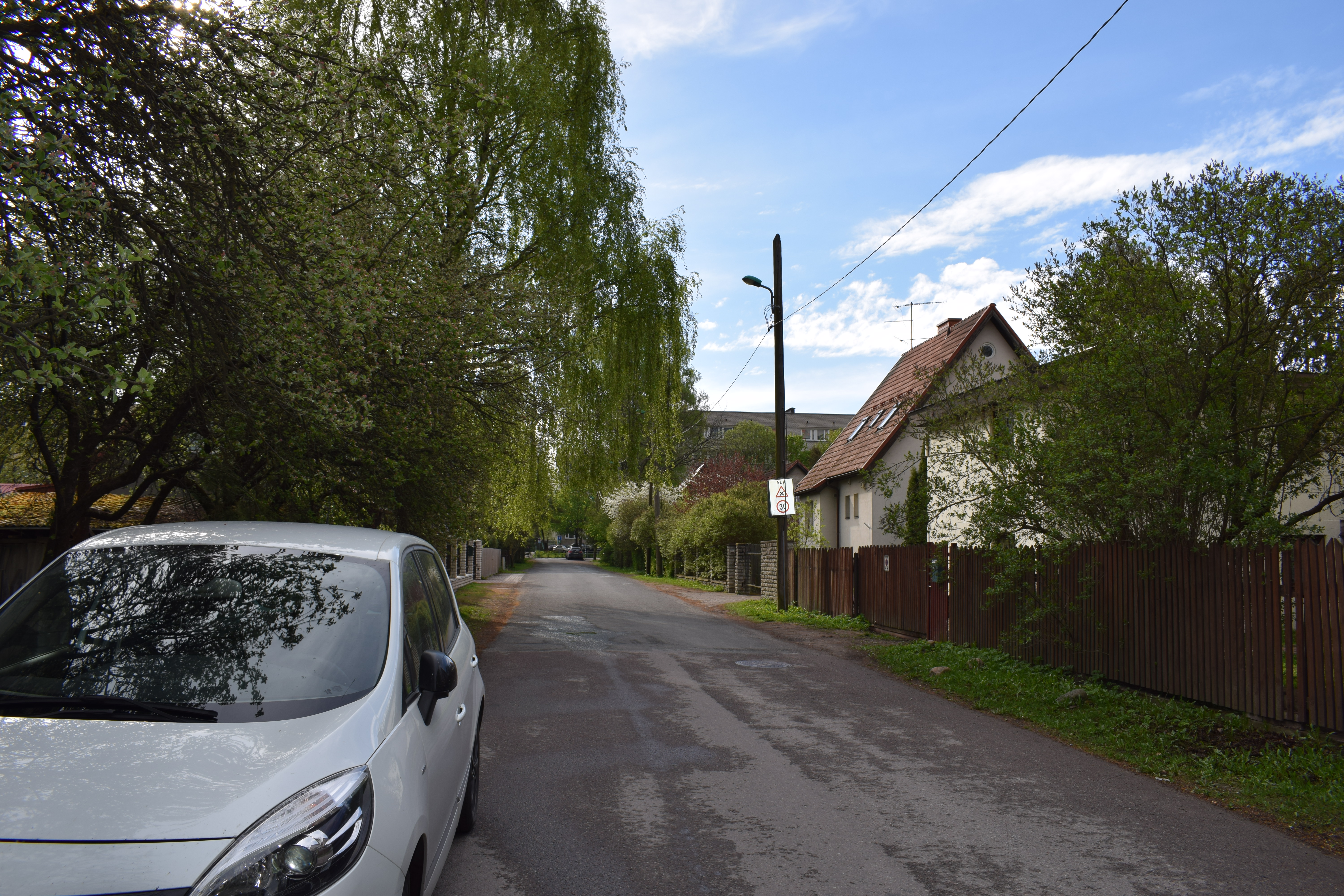 Leevikese tänav